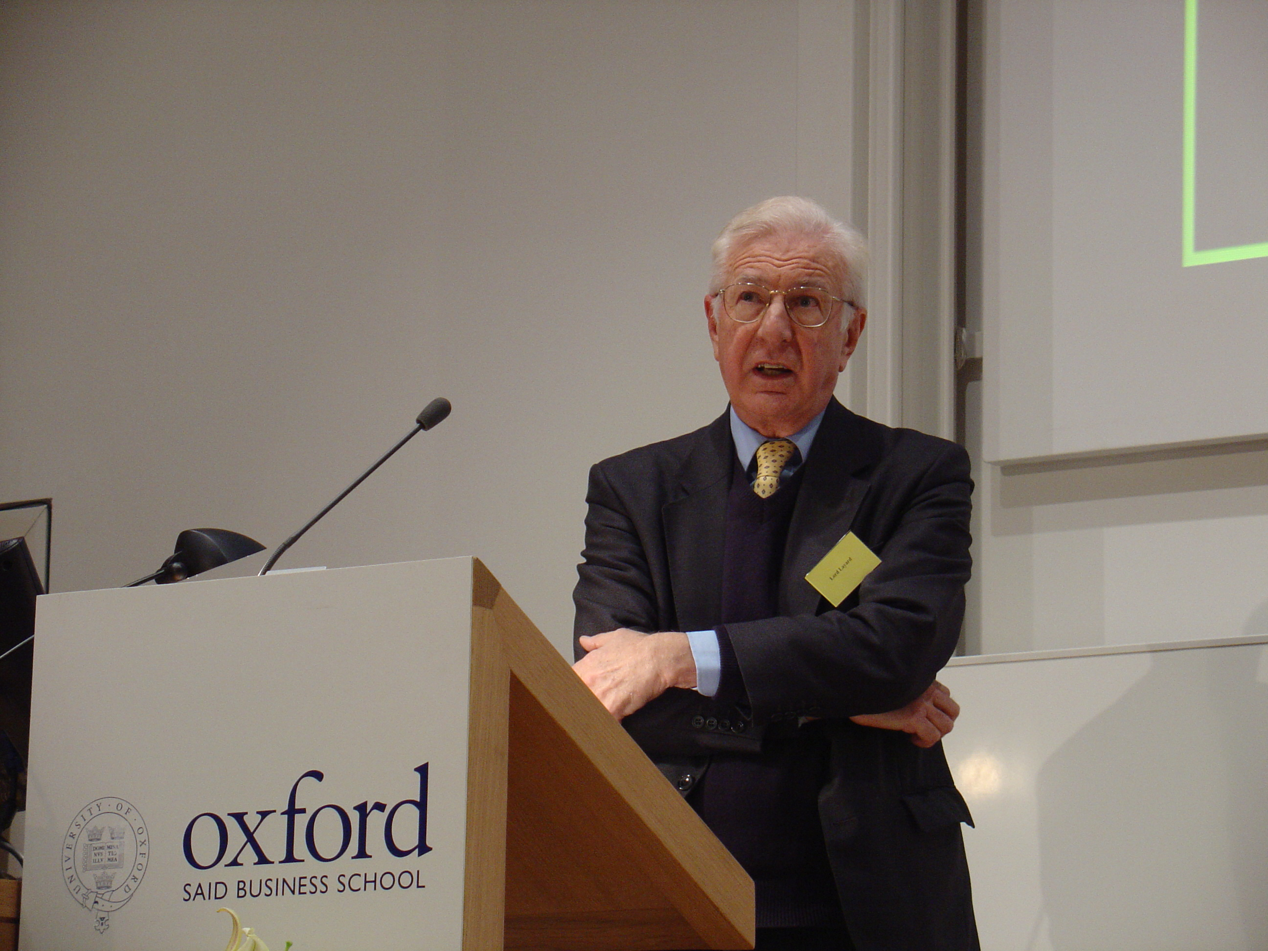 Richard Layard